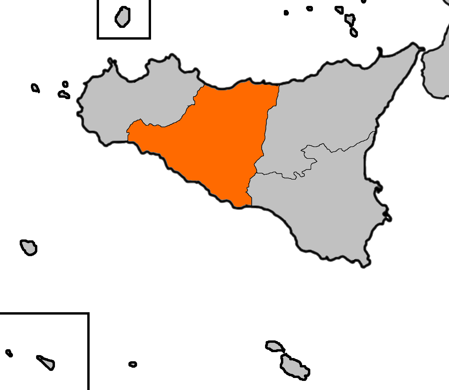 Localisation map of the Vallo di Girgenti between 1282 to 1292